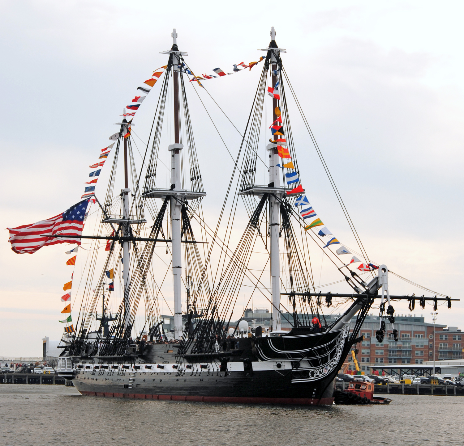 BOSTON (Oct. 21, 2010) USS Constitution returns to her pier after an underway to celebrate her 213th launching day anniversary. (U.S. Navy photo by Mass Communication Specialist 3rd Class Kathryn E. Macdonald/Released)